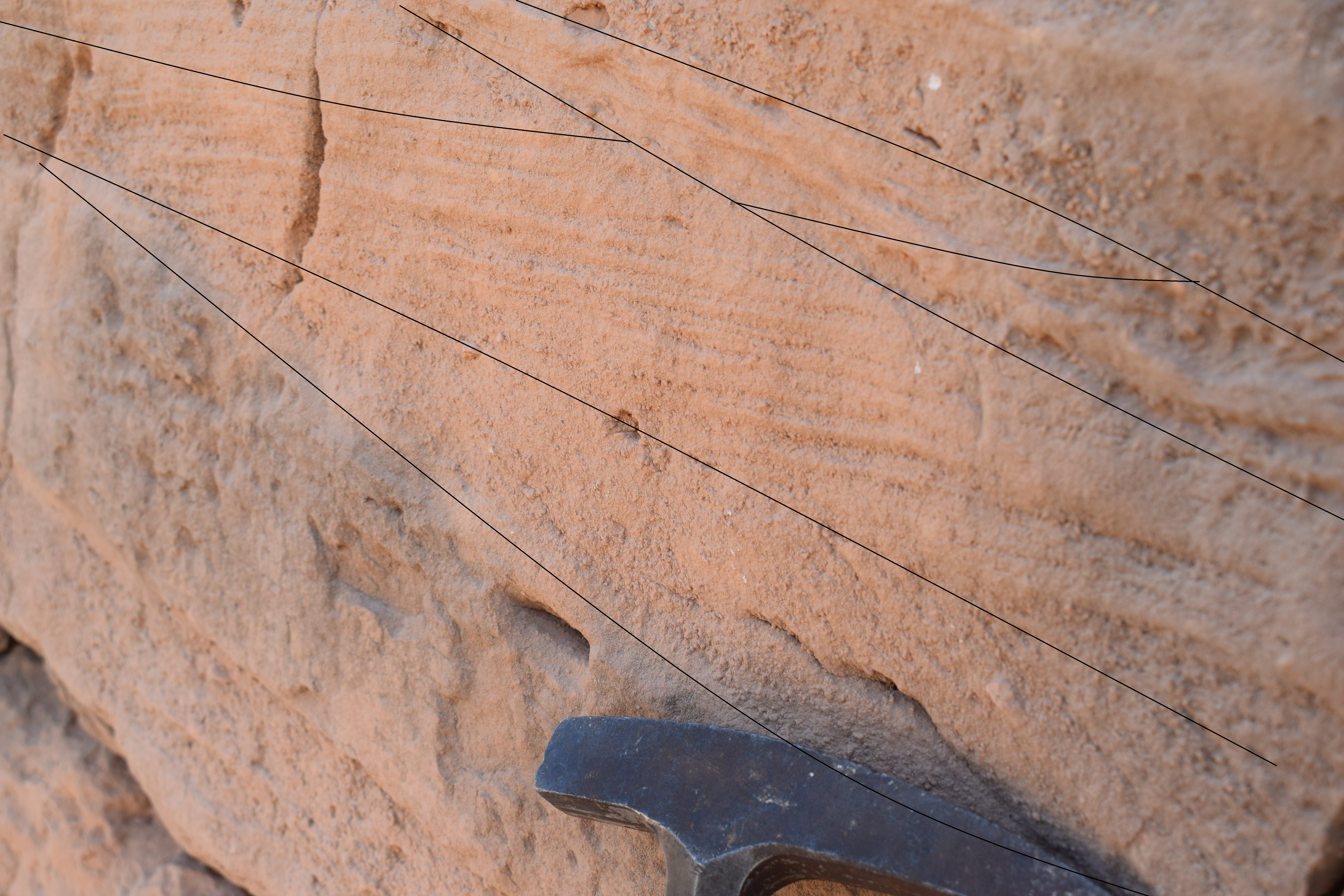 Cross beds in upper shoreface Cretaceous sandstones (Agadir Basin, Morocco)